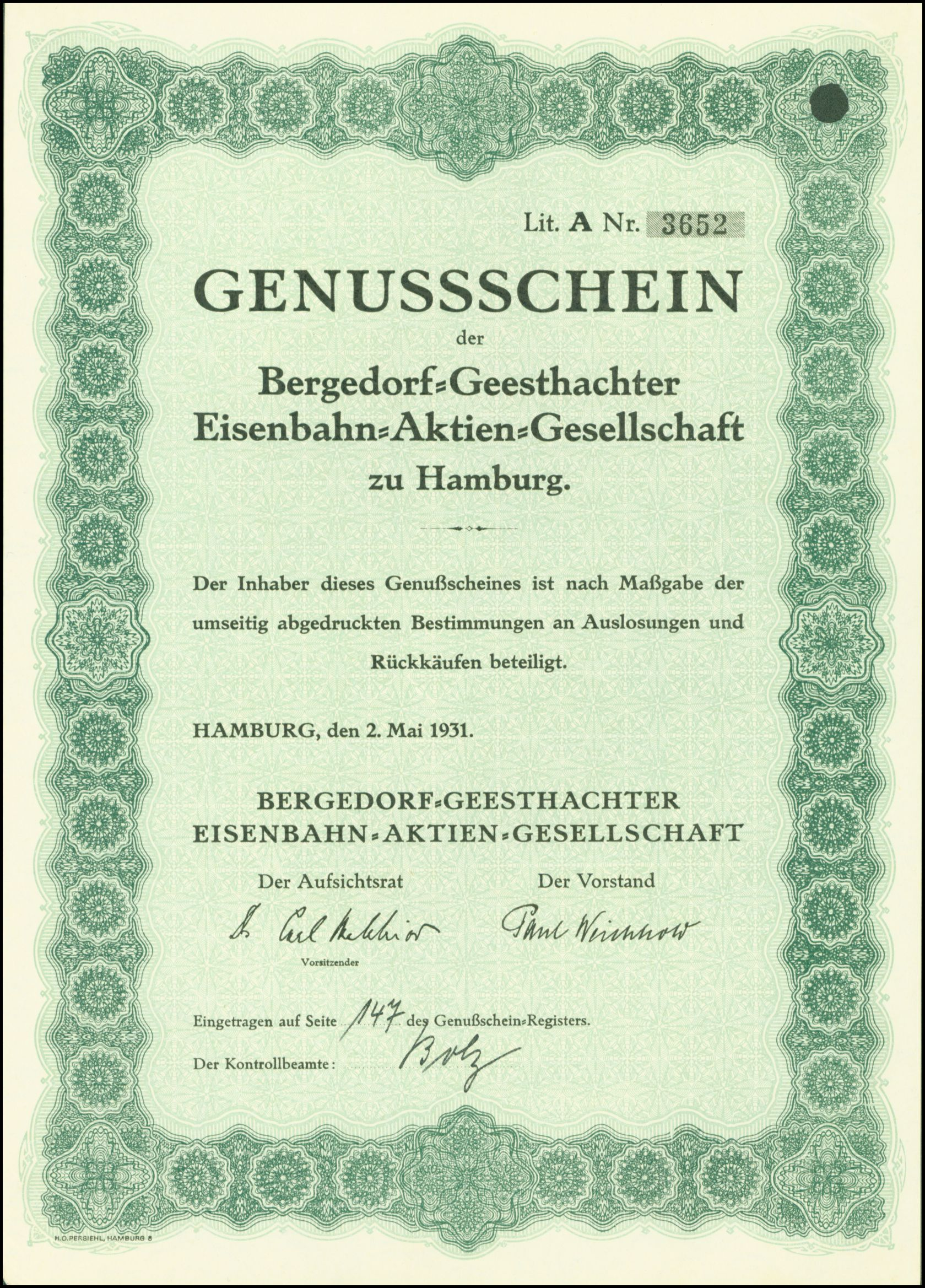 Participation certificate of the Bergedorf-Geesthachter Eisenbahn-AG, issued 2. May 1931